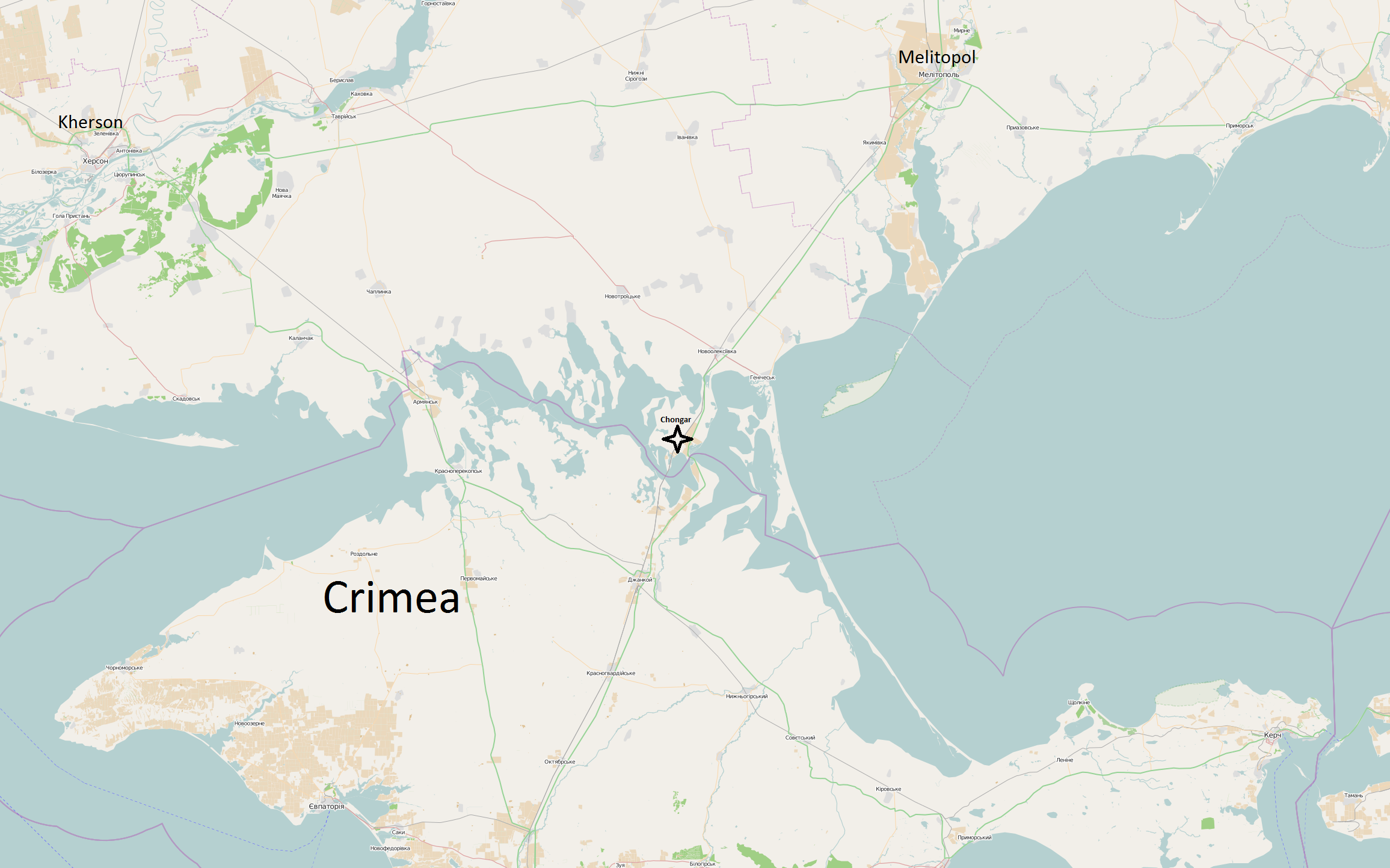 Chonhar village on the map